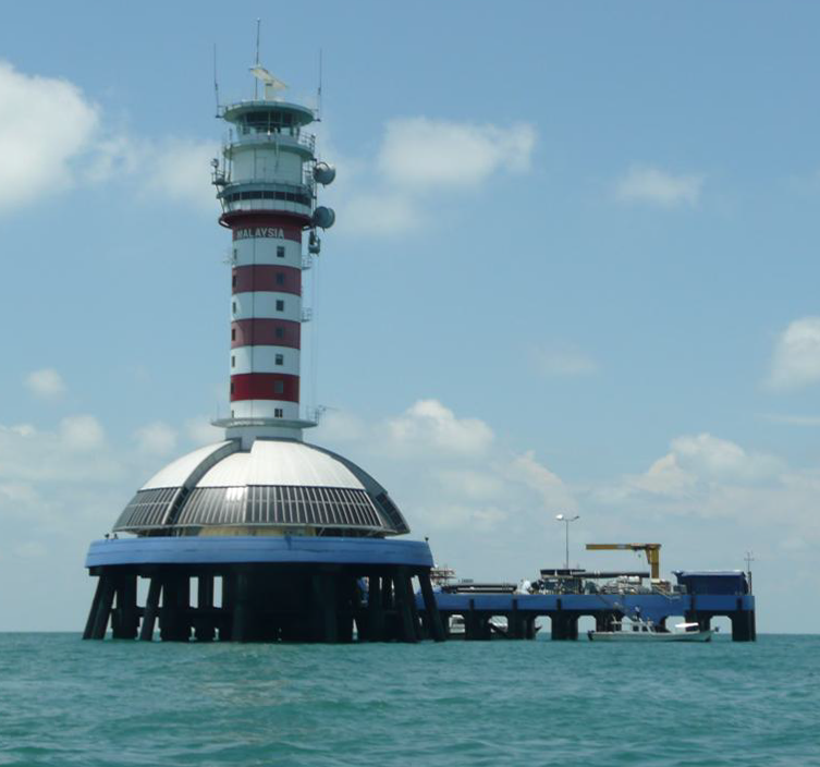 The (new) One Fathom Bank Lighthouse, as seen off the coast of Selangor in the Strait of Malacca, Malaysia. Cropped version of source photograph (NGA:112-21784).